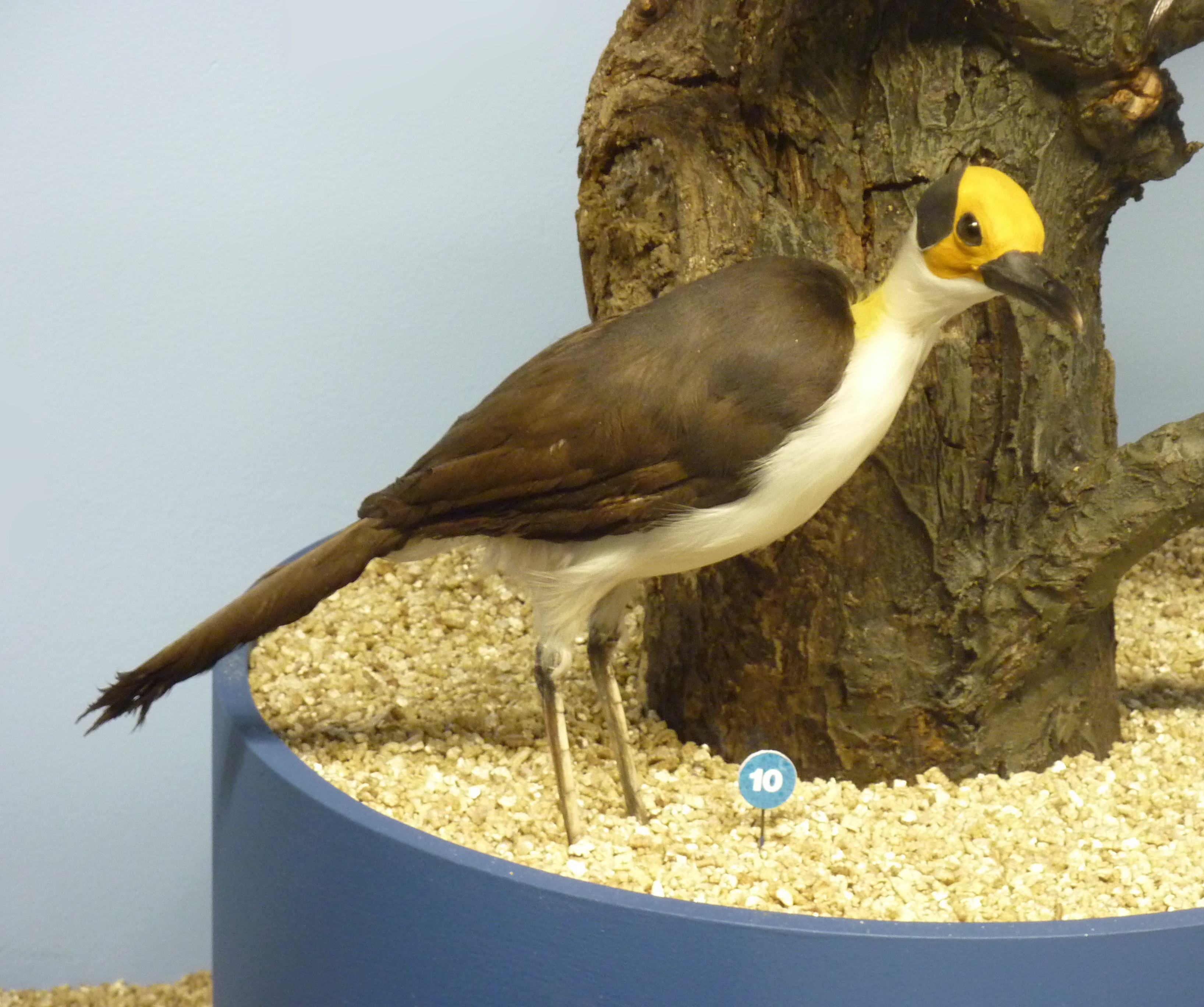 White-necked Rockfowl (Picathartes gymnocephalus)